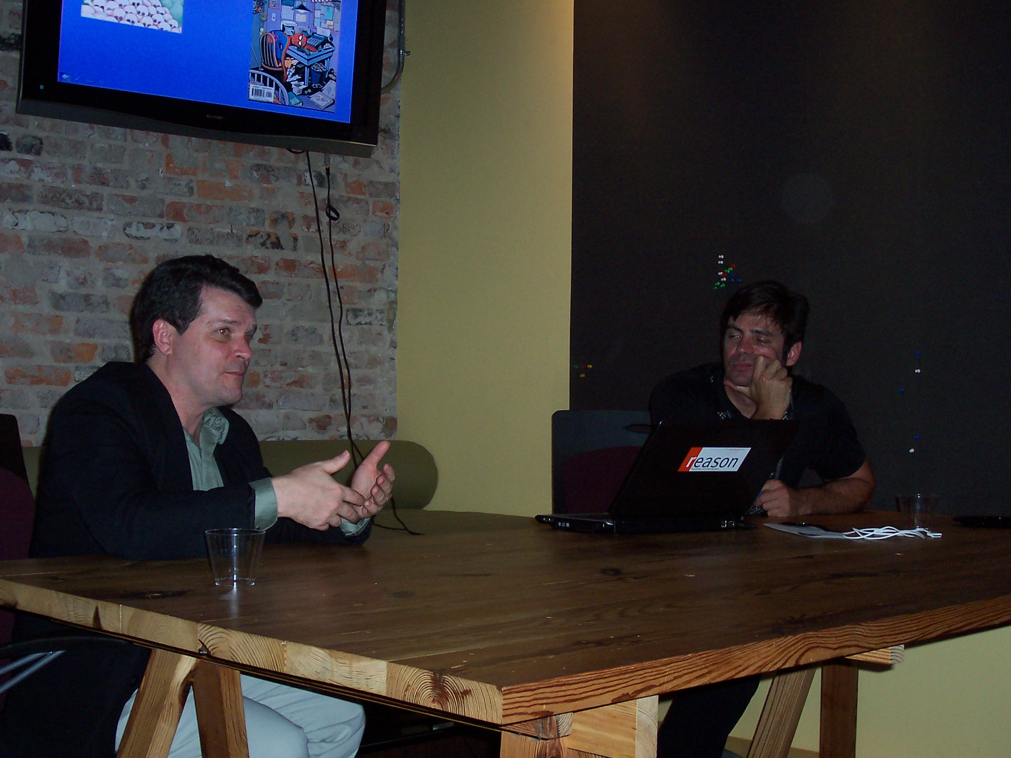 Peter Bagge at Reason Magazine, September 2007.